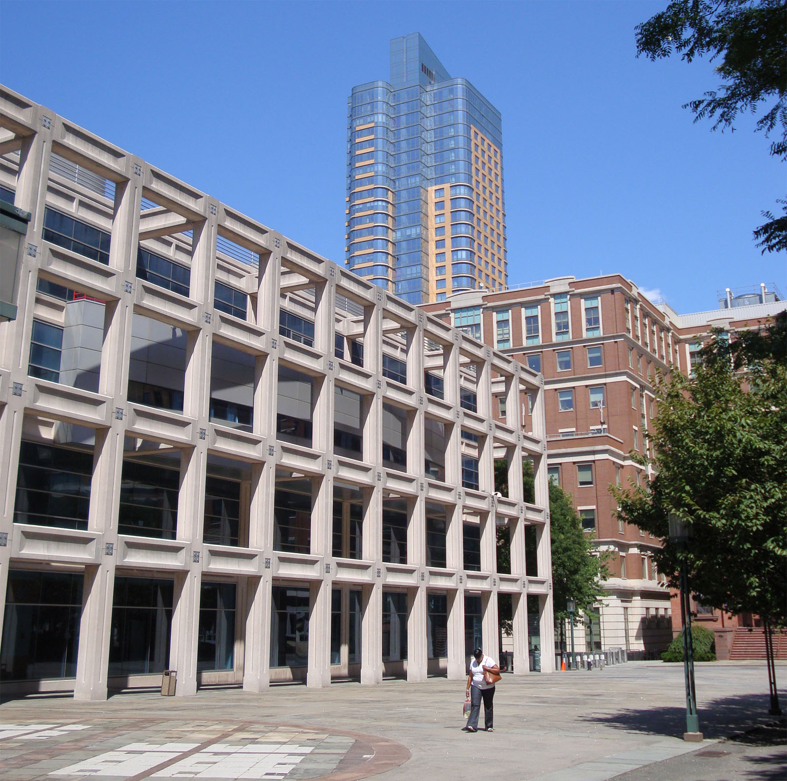 Dibner LIbrary at Polytechnic School of Engineering of NYU ideally matches the architecture style of urban infrastructure of Downtown Brooklyn